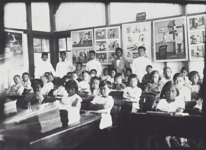 Students of the 'Hogere Kweekschool (HKS)' at Bandung teaching schoolchildren of an 'Hollands-Inlandse School (HIS)'